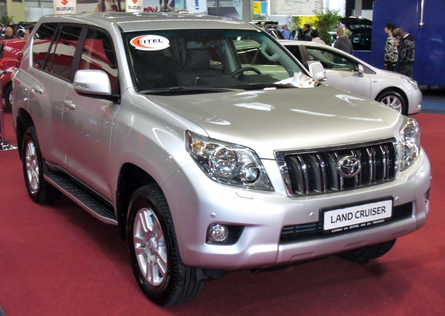 Toyota Land Cruiser